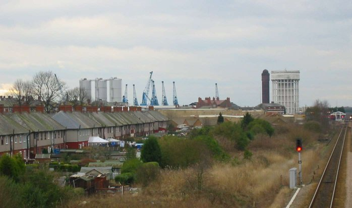 Moved from the English Wikipedia. Taken and uploaded by Danhuby. His comment: Goole, East Riding of Yorkshire, England. You will never want to leave! The Goole skyline showing the docks and the "salt and pepper pots" - the twin water towers.